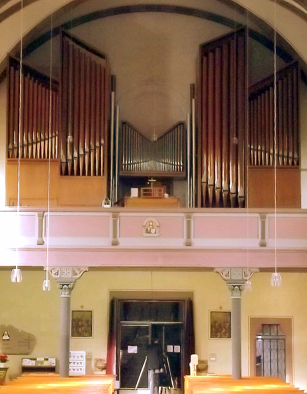 Interior of the roman catholic church in Großrosseln, Saarland, Germany